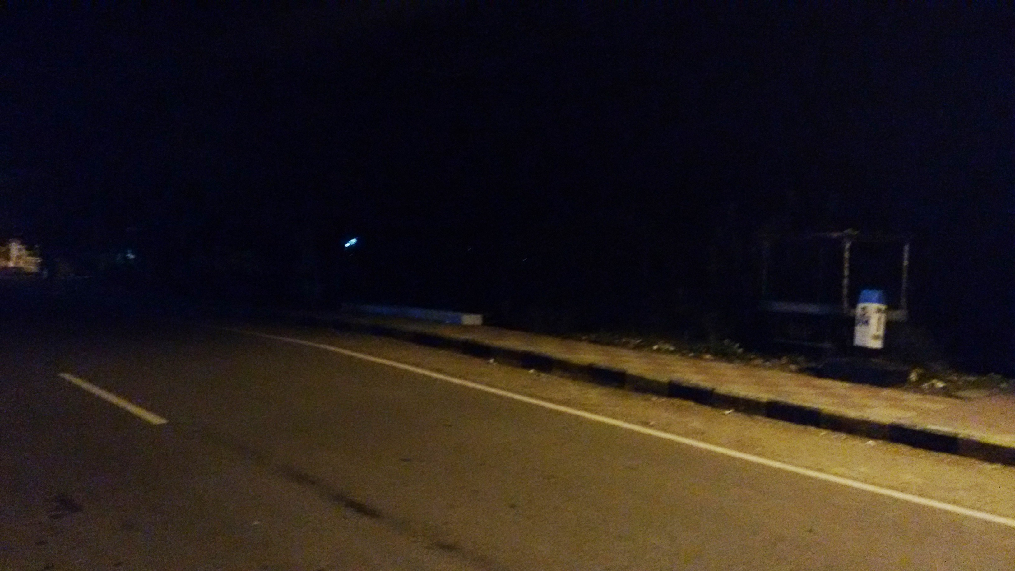 A picture of "Bhagavan Bridge" or "Bhagavan's Bridge", a small parapet on which Sri Ramana Maharshi used to sit, while going for Giri Pradakshina around the Arunachala Hill at Tiruvannamalai. This picture was taken at night on 17th January, 2015 by me, Raam. S